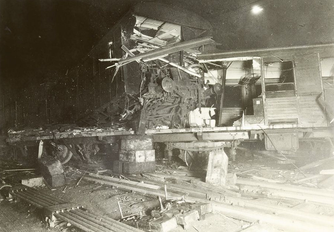 The scene of the train accident in Oerlikon, Switzerland, 17 December 1932.